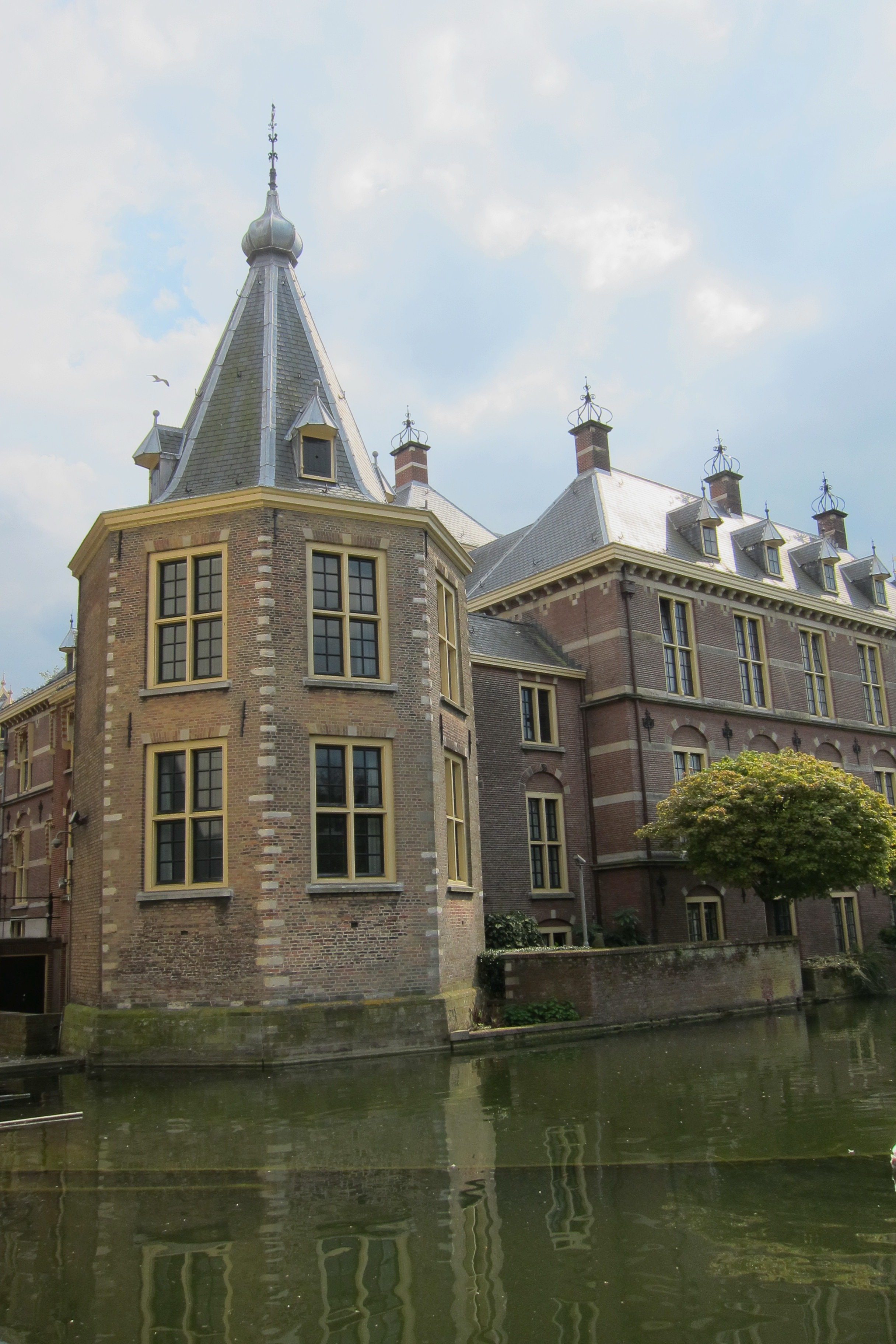 The prime ministers office known as the little tower (het torentje) where historic meetings take place